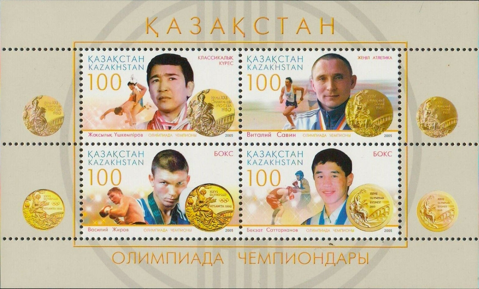 Stamp of Kazakhstan